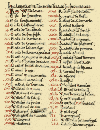 List of Devonshire landholders in chief, from Domesday Book, first page of King's holdings: HIC ANNOTANTUR TENENTES TERRAS IN DEVENESCIRE ("Here are noted (those) holding lands in Devonshire"). There are 53 entries, including the first entry for the king himself: I Rex Willelmus II Ep(iscopu)s de Execestre III Ep(iscopu)s Constantiensis IIII Eccl(esi)a Glastingberie V Eccl(esi)a de Tavestoch VI Eccl(esi)a de Bucfesth VII Eccl(esi)a de Hortune VIII Eccl(esi)a de Creneburne IX Eccl(esi)a de Labatailge X Eccl(esi)a de Rotomago S(ancta) Mar(ia) XI Eccl(esi)a de Monte S(ancto) Michael XII Eccl(esi)a S(ancti) Stefani de Cadom XIII Eccl(esi)a S(ancti) Trinit(atis) de Cadom XIIII Comes Hugo XV Comes Moritoniensis XVI Balduin(us) Vicecomes XVII Judhel de Totenais XVIII Willelm(us) de Moion XIX Willelmus Cievre XX Willelm(us) de Faleise XXI Willelm (us) de Poilgi XXII Willelmus de Ow XXIII Walterius de Douuai XXIIII Walterius de Clavile XXV Walterius XXVI Goscelmus XXVII Ricard(us) filius Gisleb(er)ti comitis XXVIII Rogerius de Busli XXIX Rob(er)tus de Albemarle XXX Rob(er)tus Bastard XXXI Ricardus fili(us) Torulf XXXII Radulfus de Limesi XXXIII Radulf(us) Pagenel XXXIIIIRadulf(us) de Felgheres XXXV Radulfus de Pomerei XXXVI Ruald Adobed XXXVII Tetbald(us) filius Bernerii XXXVIII Turstin(us) filius Rolf XXXIX Aluredus de Ispania XL Aluredus brito XLI Ansgerus XLII Aiulfus XLIII Odo filius Gamelin XLIIII Osb(er)nus de Salceid XLV Uxor Hervei de Helion XLVI Girold(us) capellan(anus) XLVII Girardus XLVIII Godebold(us) XLIX Nicolaus L Fulcherus LI Haimericus LII Will(elmu)s et alii servient(es) regis LIII Coluin et alii taini regis